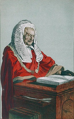 Caricature of Sir Fitzroy Edward Kelly (1796-1880). Caption read "The Lord Chief Baron".